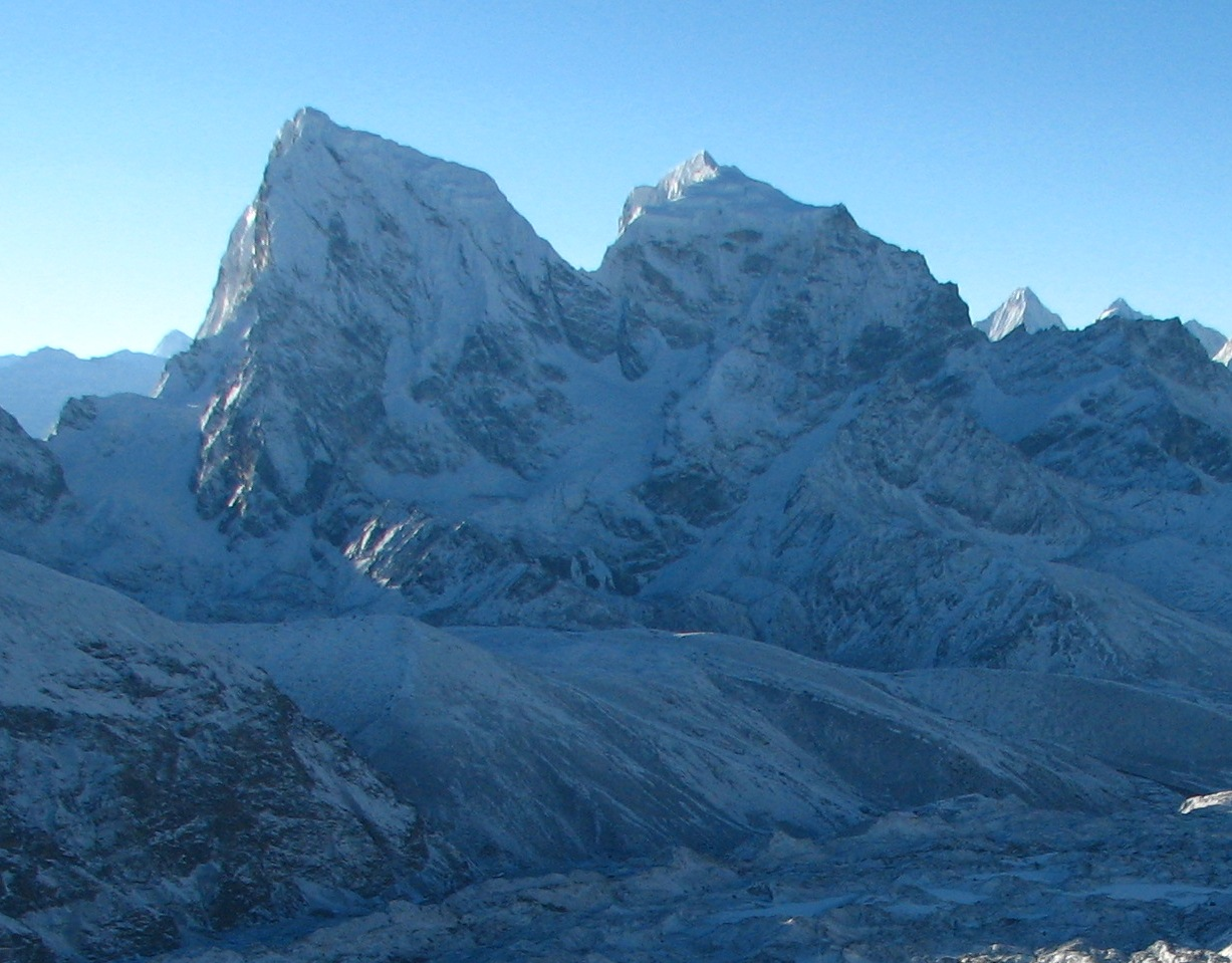 Northwest faces of Cholatse and Taboche from Gokyo Ri